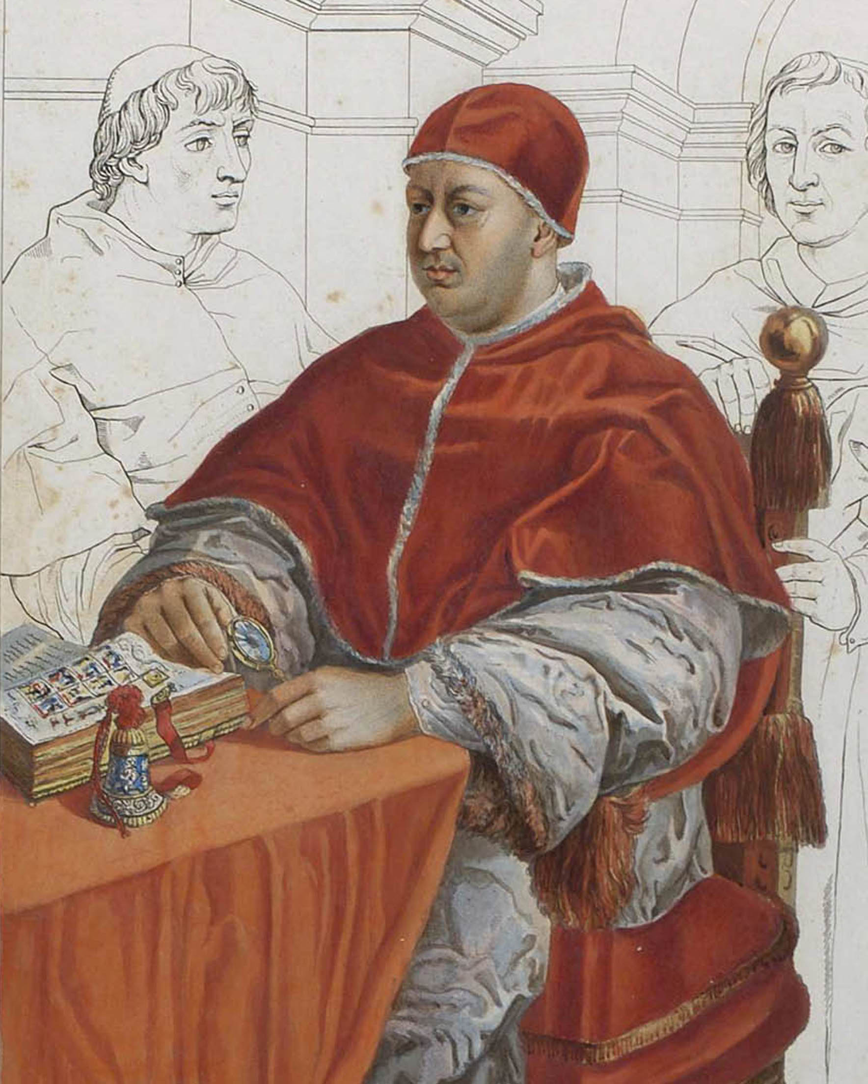 Pope Leo X